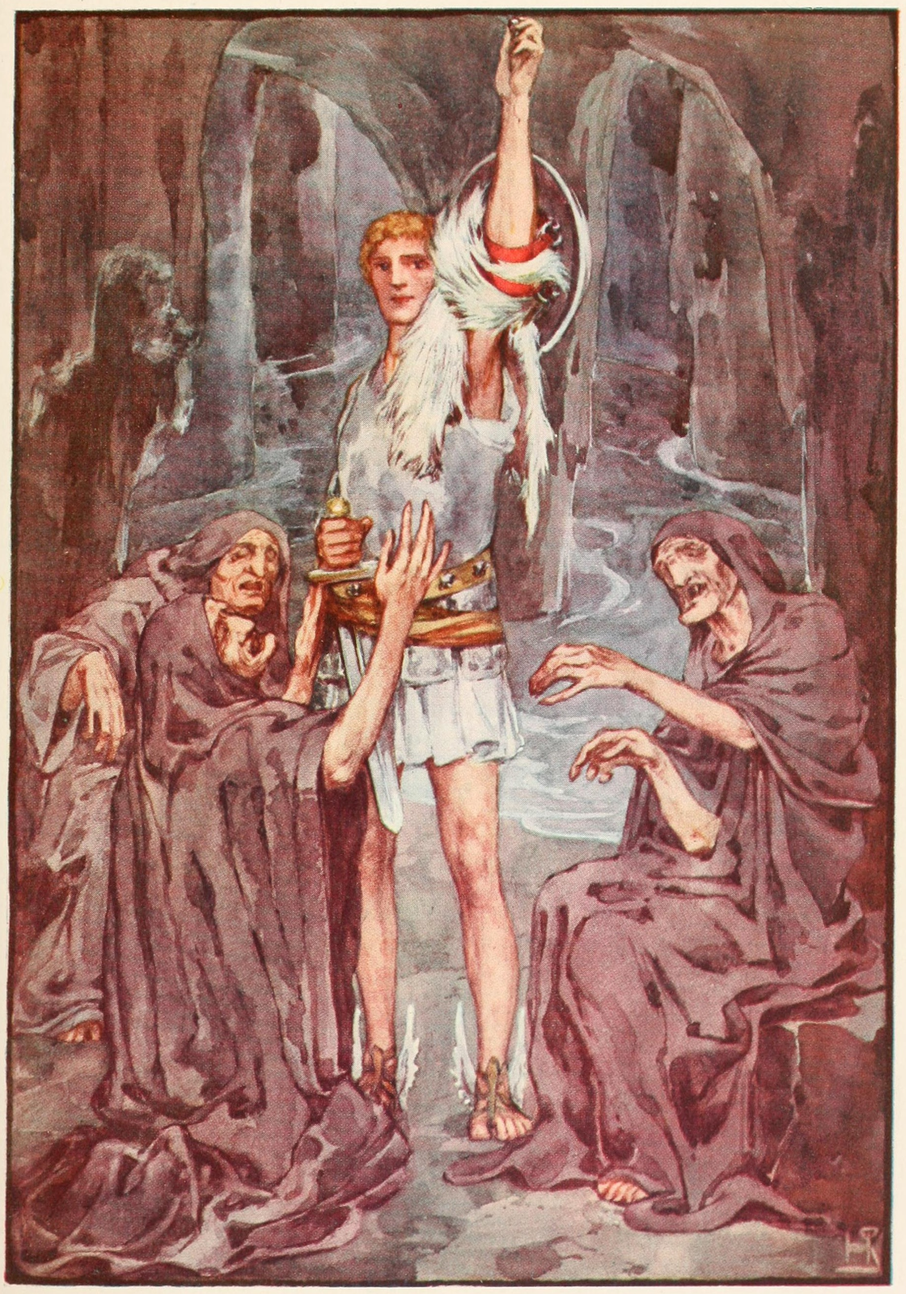 Illustration from a collection of myths.